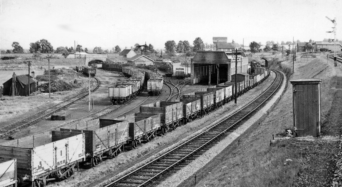 Templecombe Locomotive Depot. View SE , towards Bournemouth on the ex-Somerset & Dorset Bath - Bournemouth line (closed 7/3/66) taken from a Bournemouth-bound train, taking the loop from Templecombe North Junction up to the SR ex-LSW main (Salisbury - Exeter) line station, the train later reversing back before continuing its journey. The SR main line crosses across the view in the background. The Depot is almost empty, but one or two ex-LMS (S&D) 0-6-0s are visible.